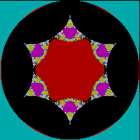 Complex recursive fractal, power -5